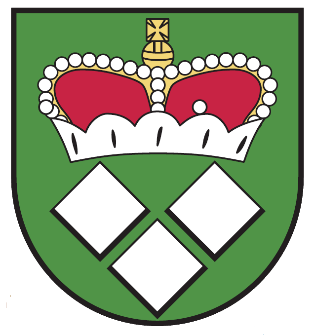 Coat of arms of Salzdahlum